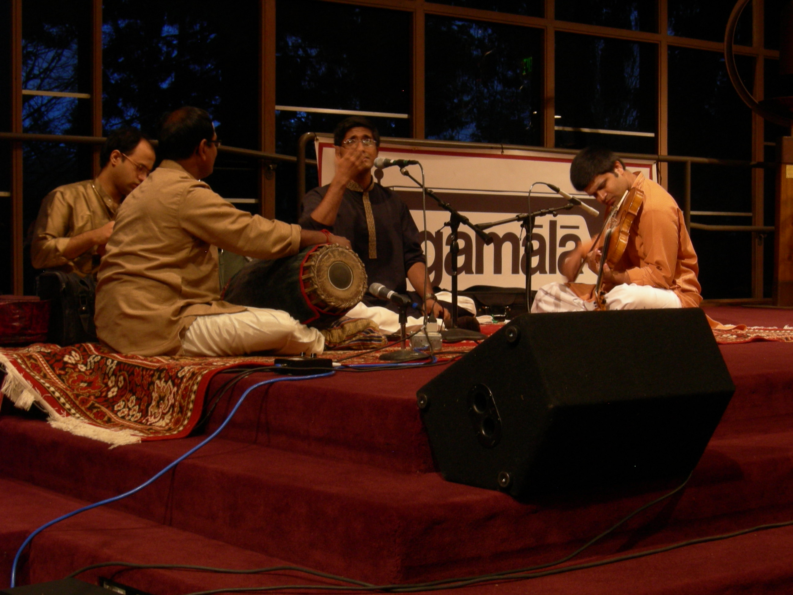 Carnatic vocalist Abhishek Raghuram, in concert at Eastshore Unitarian Church, Bellevue, Washington, accompanied by Mysore K. Srikanth (violin), Ganapathy Raman (mridangam), and Dr. Ravi Balasubramanian (ghatam). Part of the Seattle-area Ragamala concert series. This is one of a series of photos I (Joe Mabel) took on that occasion. It was not ideal shooting conditions for my inexpensive digital camera, which only shoots at about the equivalent of ISO 400 at most. In general, I underexposed (in various degrees) to avoid too much motion blur, planning to fix what I could in postprocessing. About 60 images have been uploaded to the Wikimedia Commons. In each case, the raw version is uploaded and, in most cases, one (or occasionally two) versions that are colormapped lighter (and sometimes bluer) and, in about half the cases, cropped.